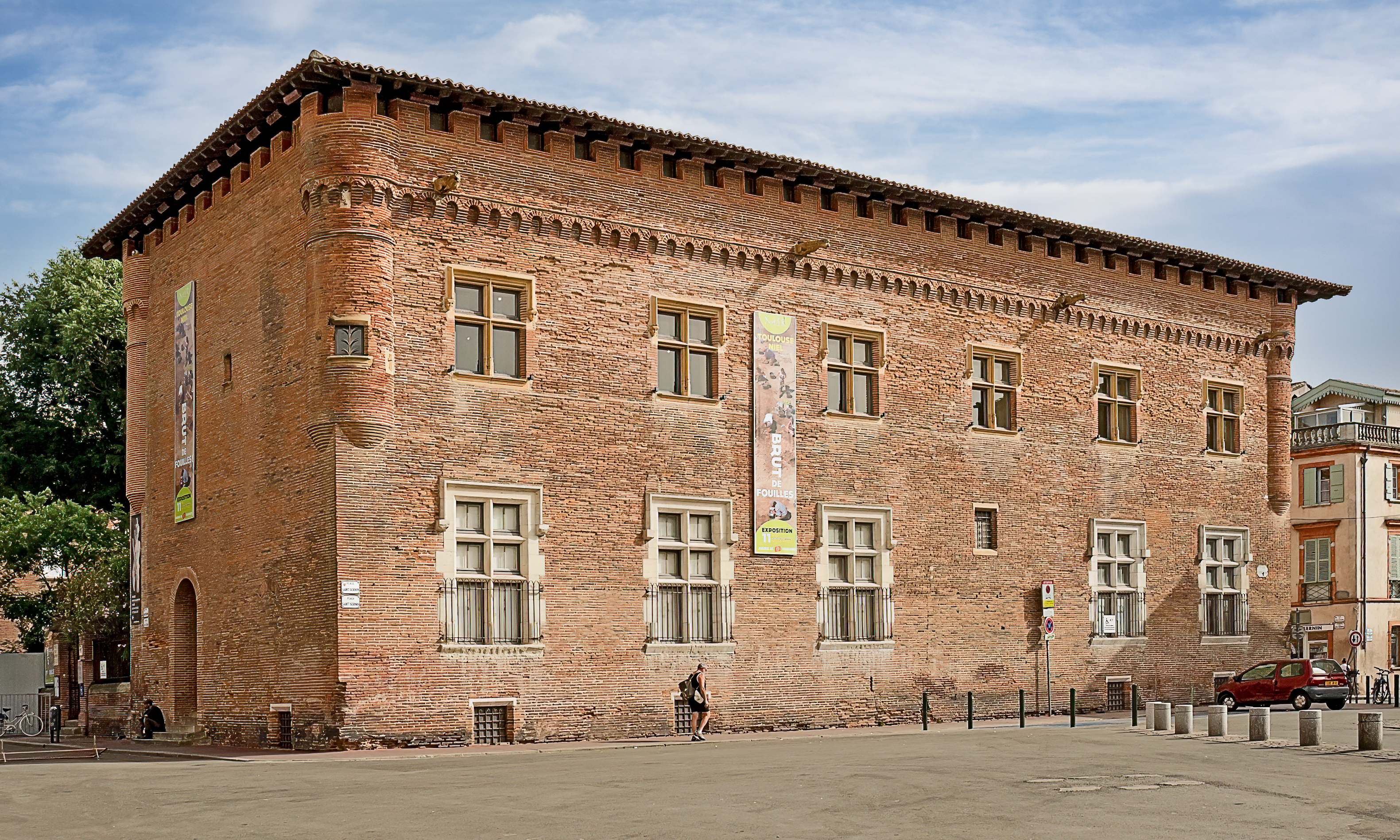 Musée Saint-Raymond. Facade, Place Saint Sernin.